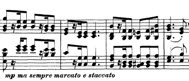 Excerpt from Liszt's Transcendental Etude 8 "Wilde Jagd"